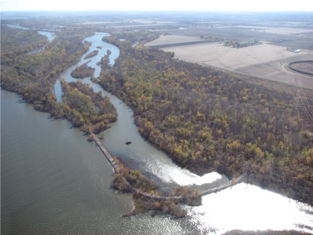 Dresser Island is located along the right descending bank of Pool 26 between river miles 206 - 209 in St. Charles CO., MO near the town of West Alton. The island complex consists of approximately 940 acres of federal lands and waters managed by the Missouri Department of Conservation under a cooperative agreement through the U.S. Fish and Wildlife Service. The habitat had deteriorated due to the effects of flood-induced sediment deposition. Plants essential for wildlife food cannot grow due to interior water level fluctuations. The proposed project’s goals are to reduce interior sediment deposition by 90%, improve water management and plant food availability to improve conditions for fish and waterfowl.